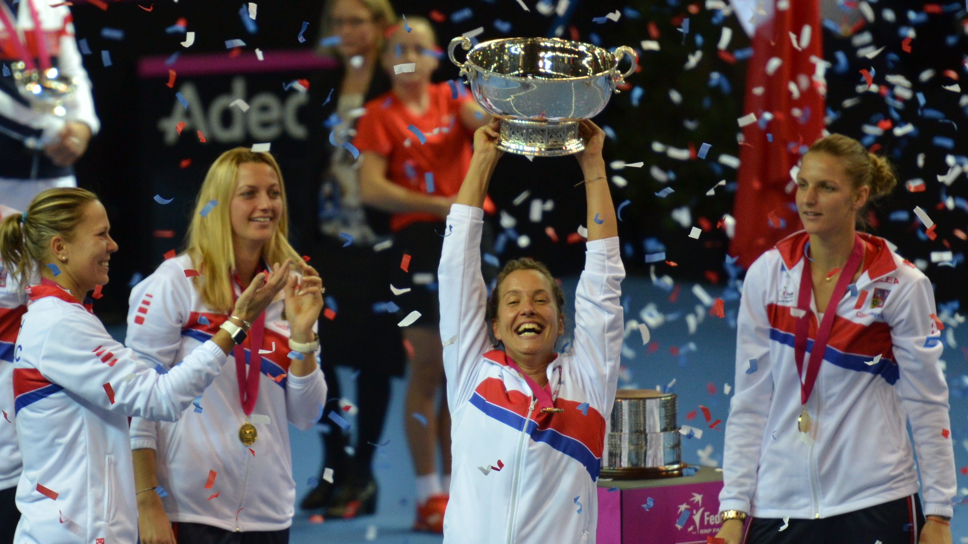 Barbora Strycova lifts Fed Cup trophy 2016